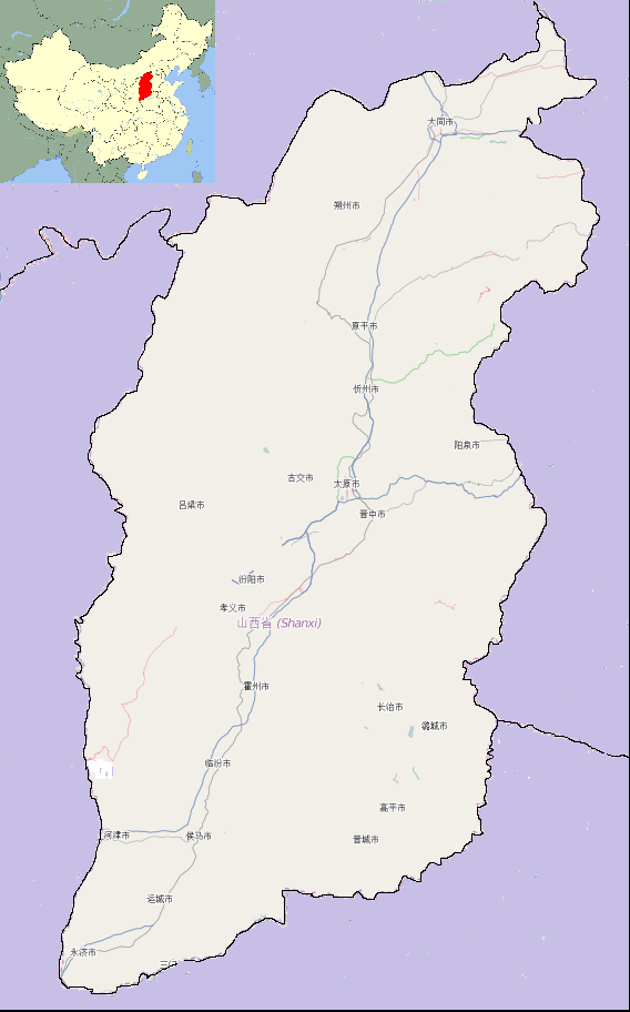 Map of Shanxi, China Geographic limits of the map: N: 40.83° S: 34.49° W: 109.78° E: 114.78°